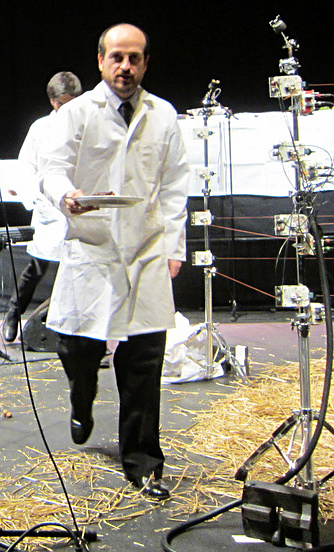 Matthew Herbert at a concert of his "One PiG"-Tour in Hamburg, Germany